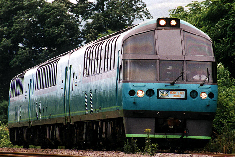 JR Hokkaido KiHa 80 series "Mount Lake Onuma" DMU